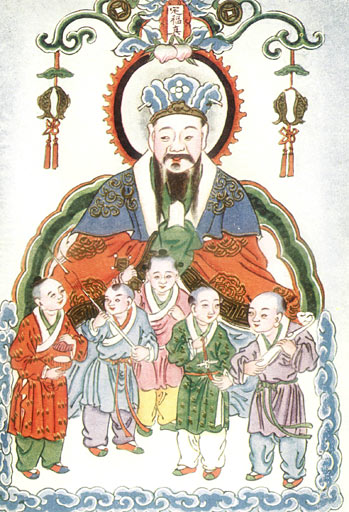 Zao Jun - The Kitchen God - Project Gutenberg eText 15250